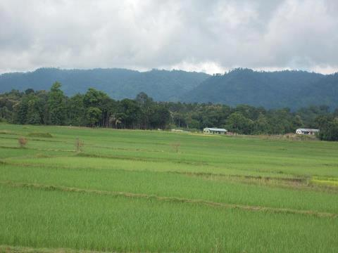 A snapshot of jampui hill range, North Tripura, Kanchanpur.